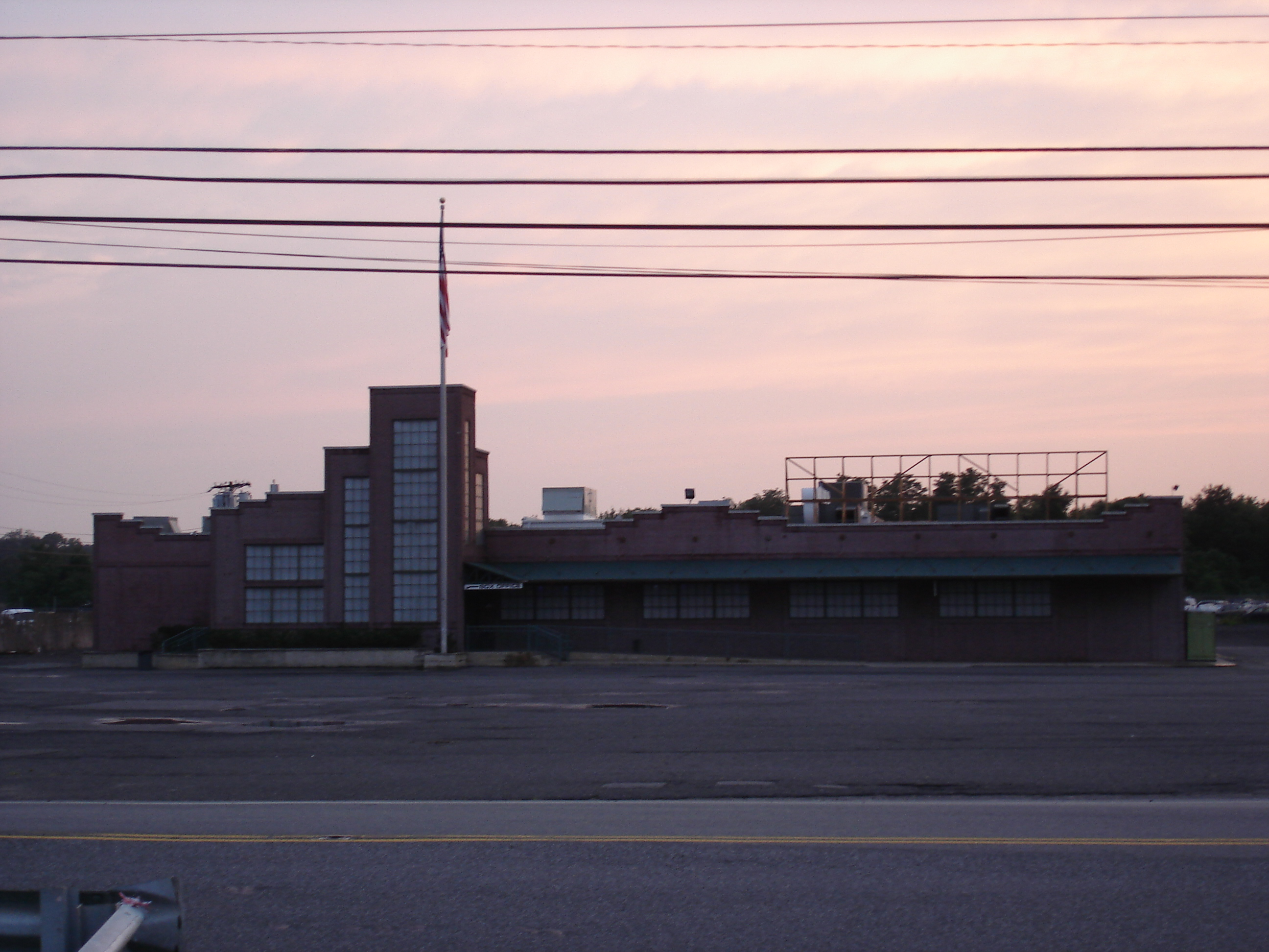 Starland Ballroom at Sayreville, New Jersey